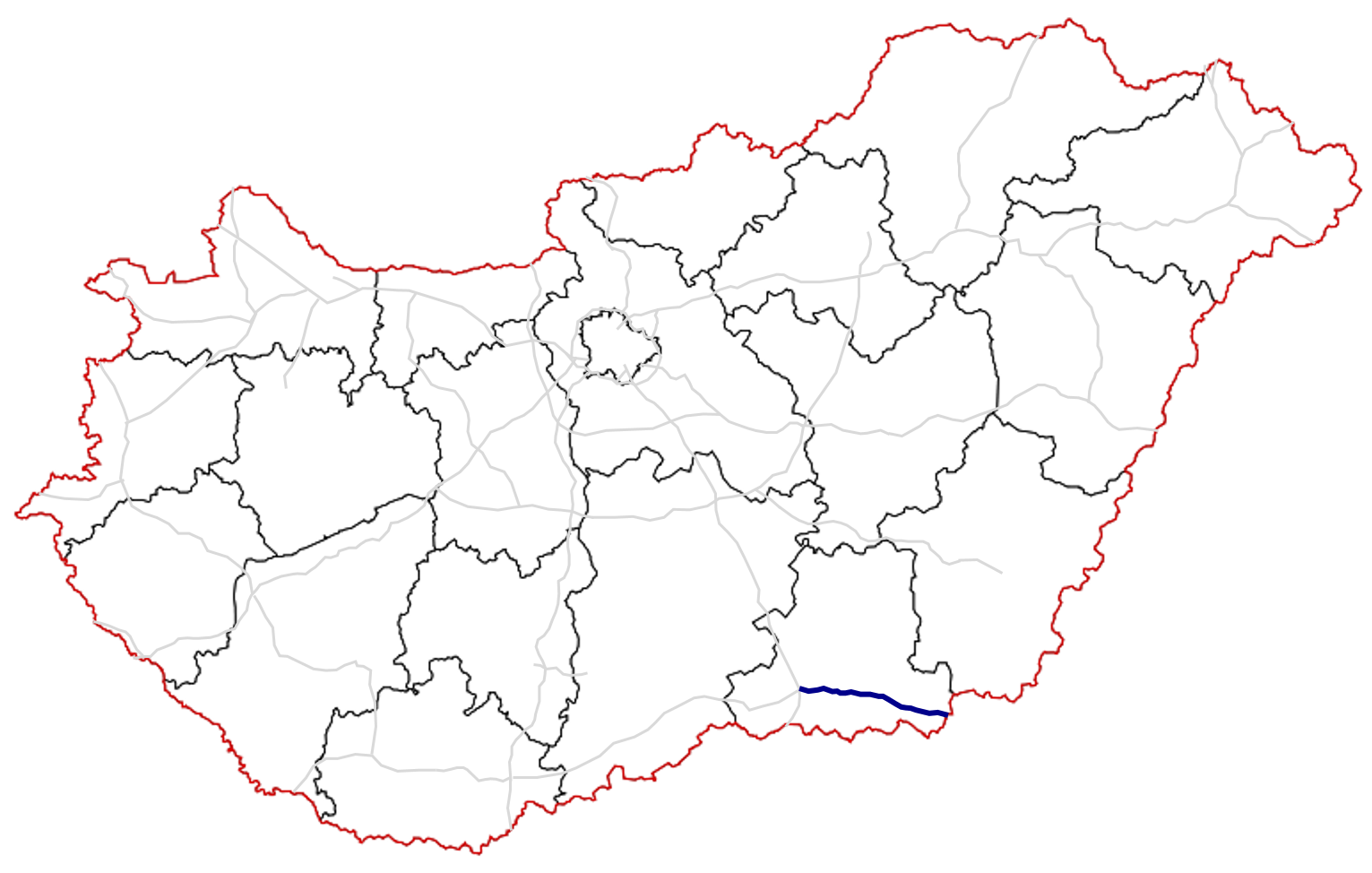 Traject the M43 Motorway, Hungary (Blue: in use, Light blue: under construction, Green: planned)